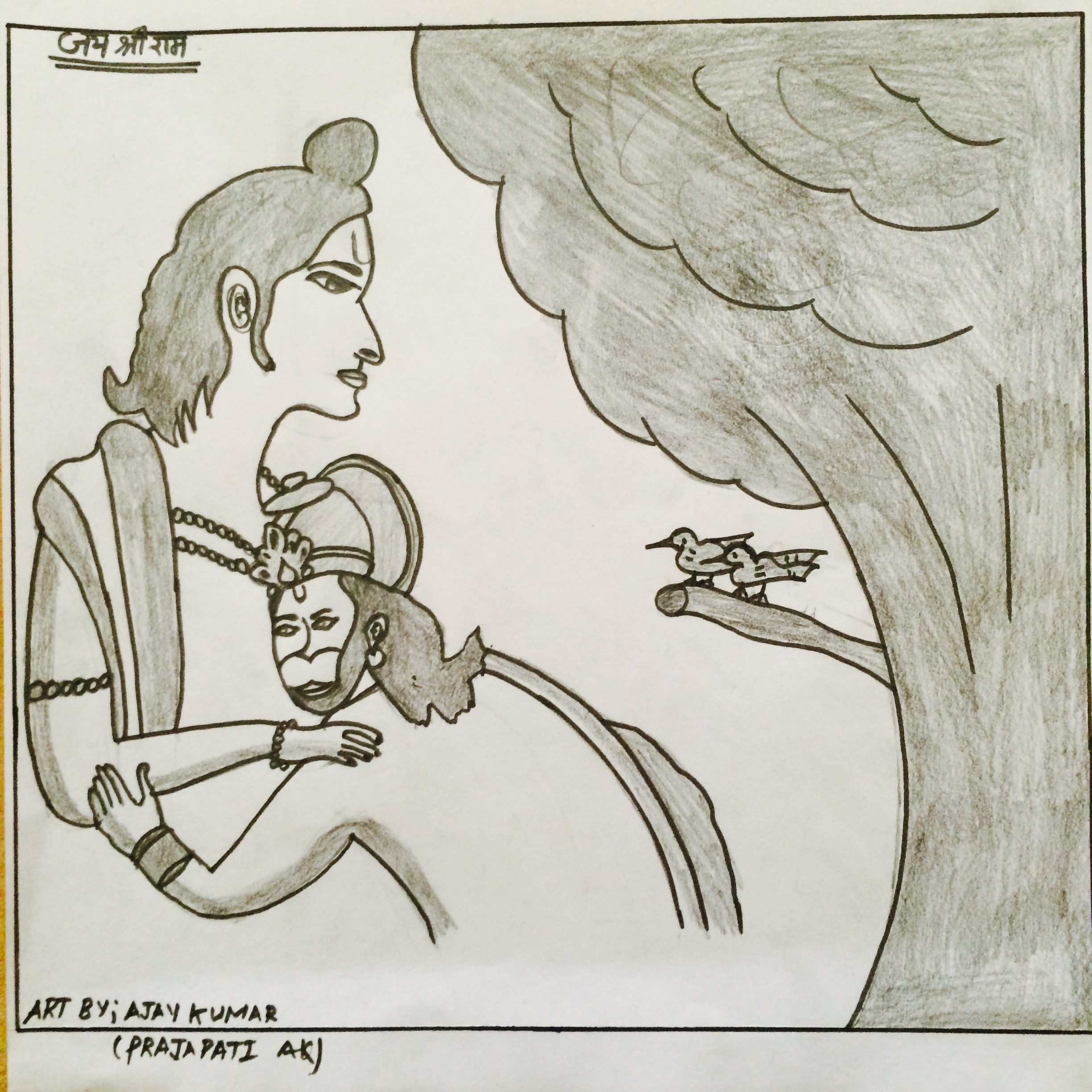 Jai Shri Ram